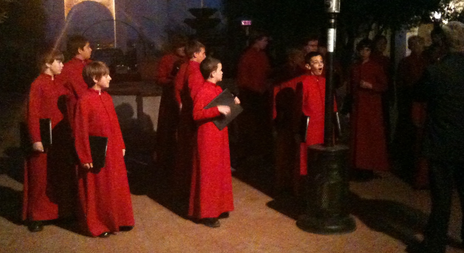 Members of the Tucson Arizona Boys Chorus prepare to perform for a benefit concert at the historic Mission San Xavier del Bac in Tucson.